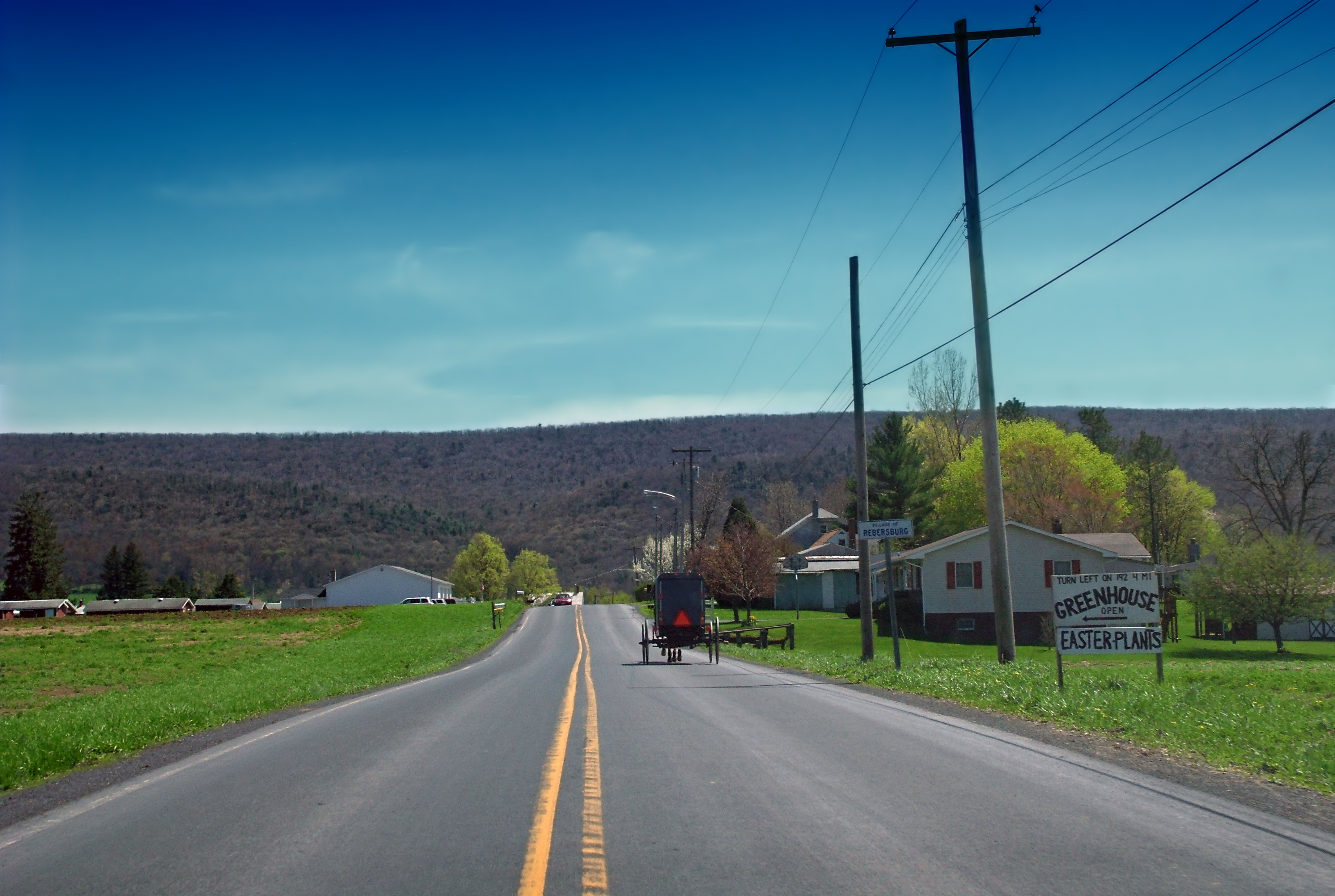 PA Route 880, Centre County, near the village of Rebersburg.